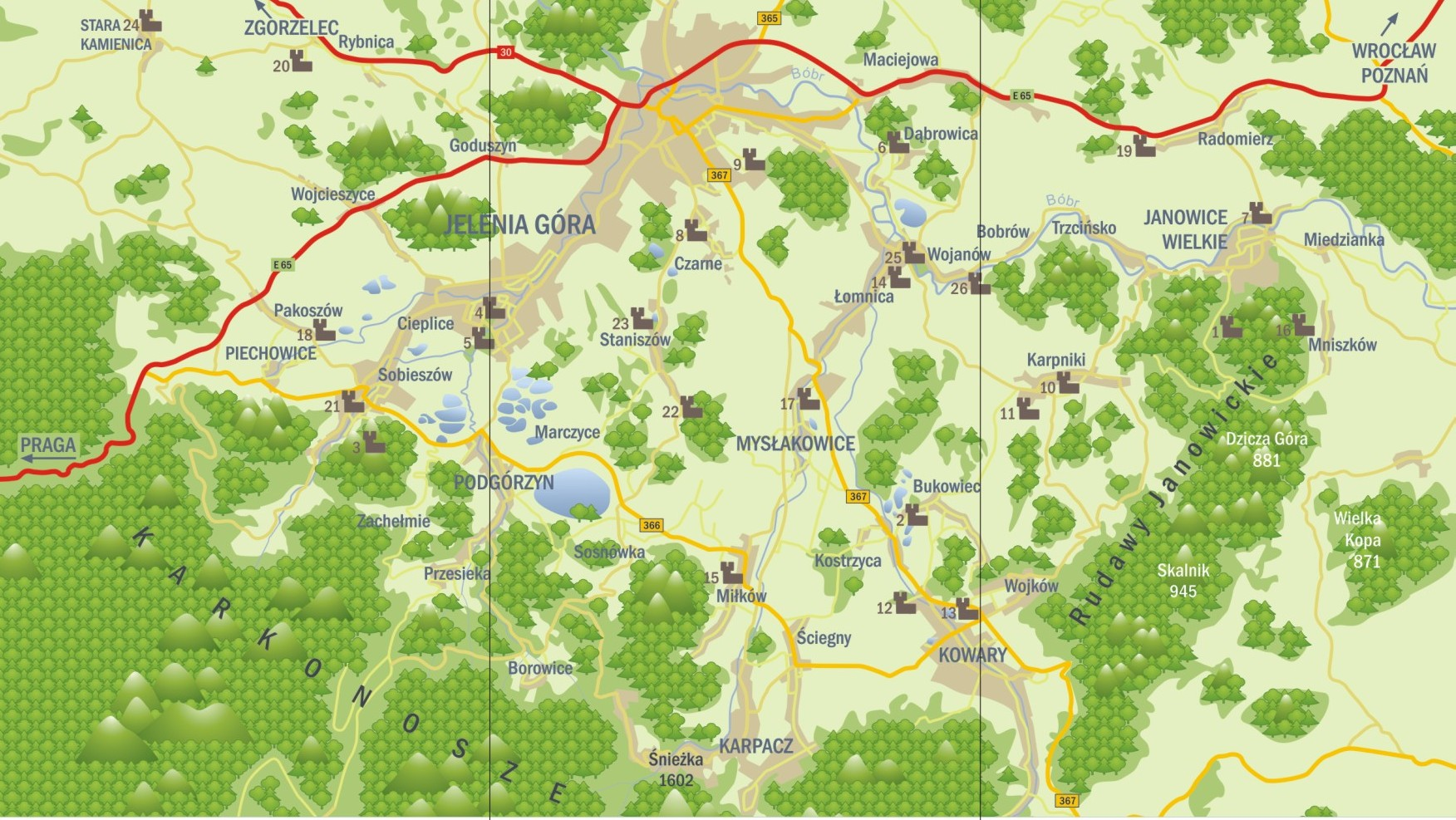 A map of the Jelenia Góra valley, Lower Silesia, Poland.